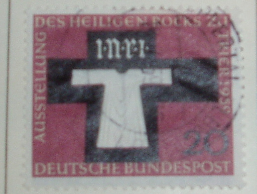 Holy Tunic, Stamp 1959